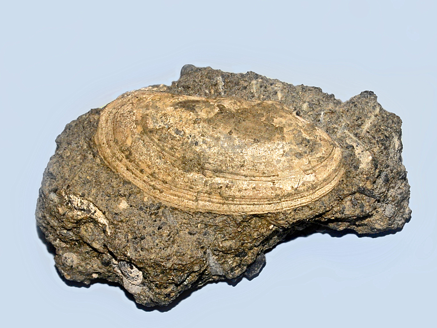 Fossil shell of Panopea intermedia, on display at the Museo Paleontologico Giulio Maini, Ovada